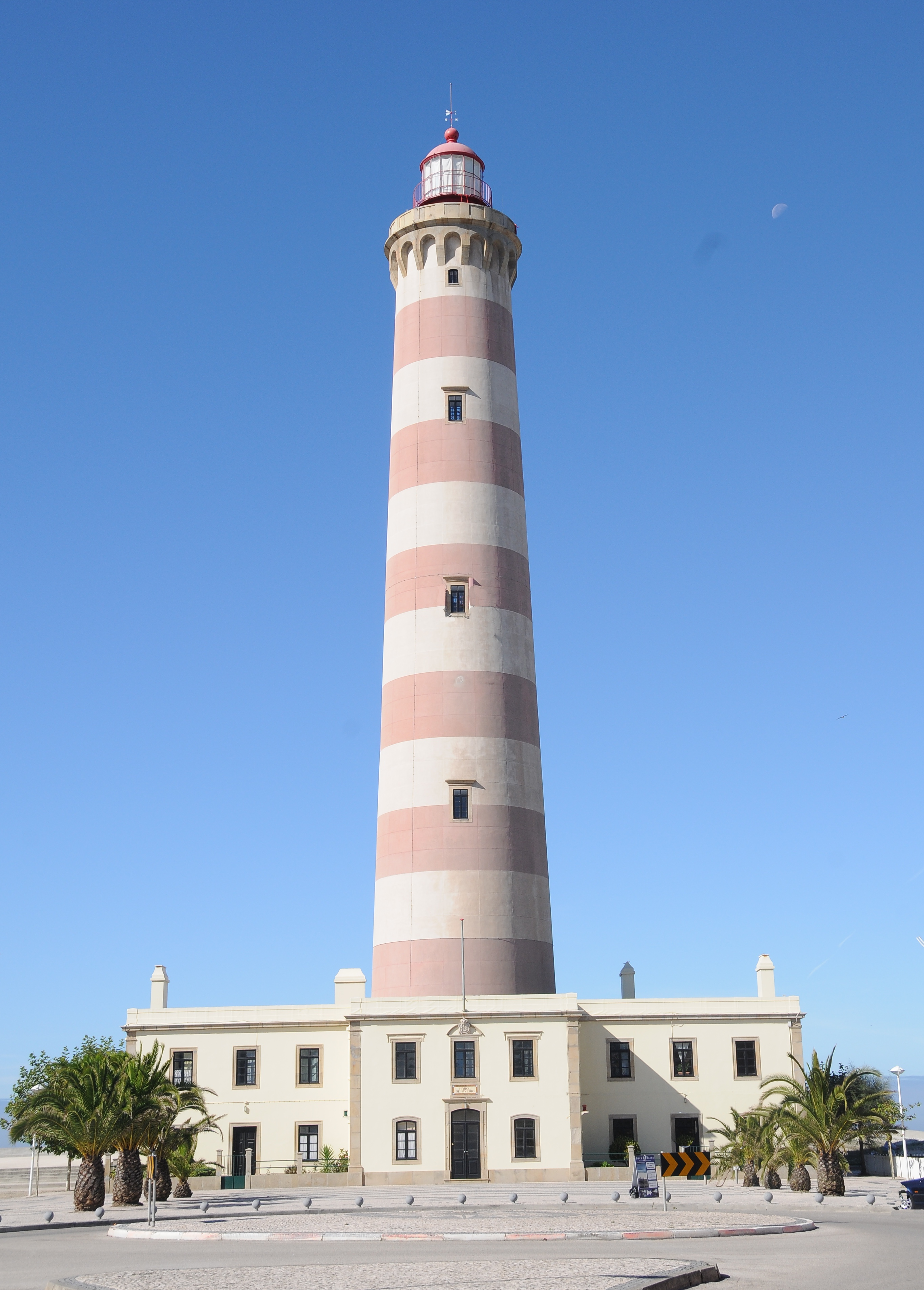 Aveiro lighthouse or Barra lighthouse, at Barra beach, Gafanha da Nazaré, Ílhavo, Aveiro, Portugal.